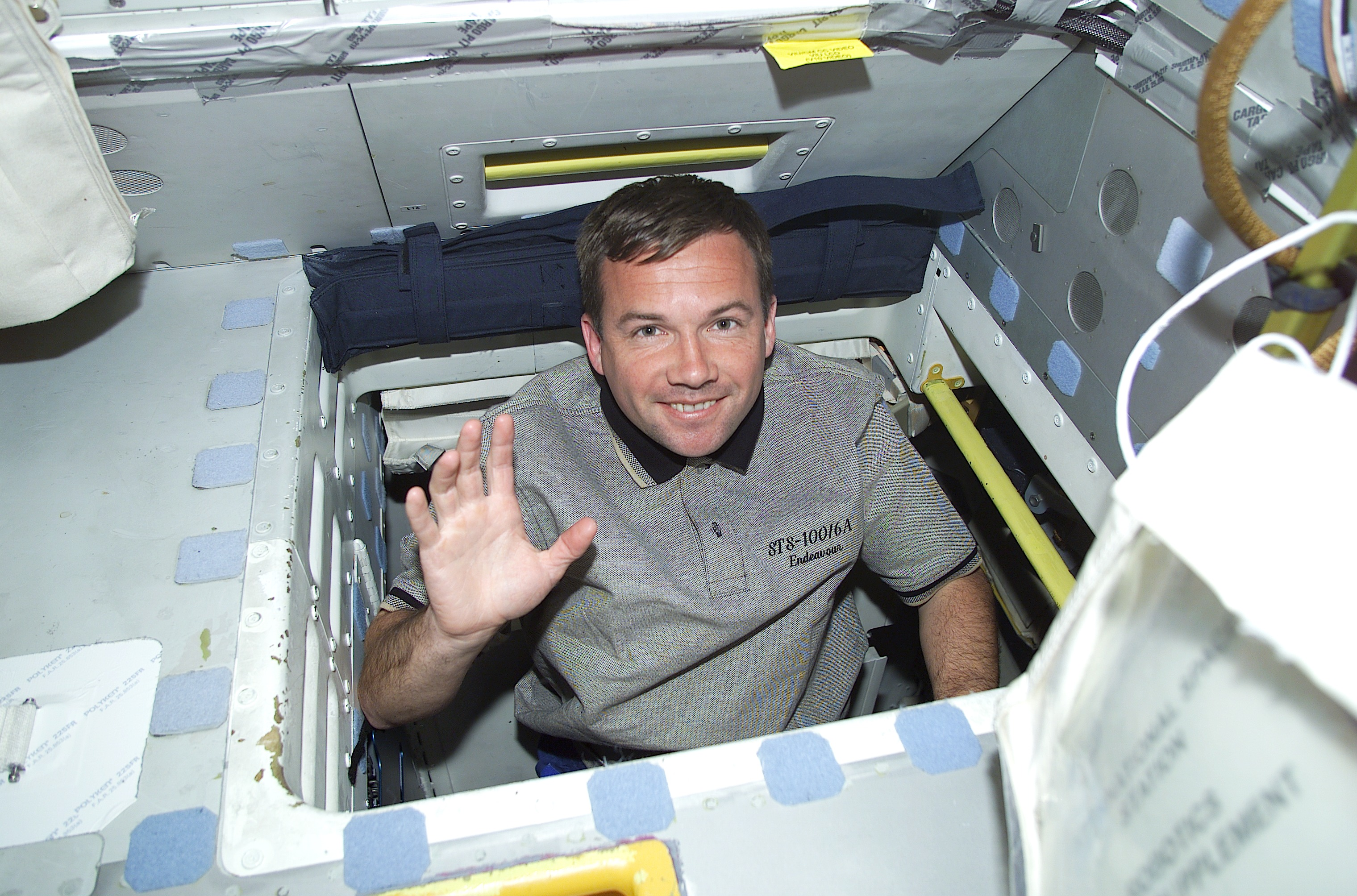 Cosmonaut Yuri V. Lonchakov, mission specialist representing Rosaviakosmos, waves to a crew mate while translating through the passageway between the mid deck and flight deck onboard the Earth-orbiting Space Shuttle Endeavour. The image was recorded with a digital still camera.